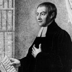 Martin Stephan (1777-1846), saxon and American lutheran pastor of Czech origin